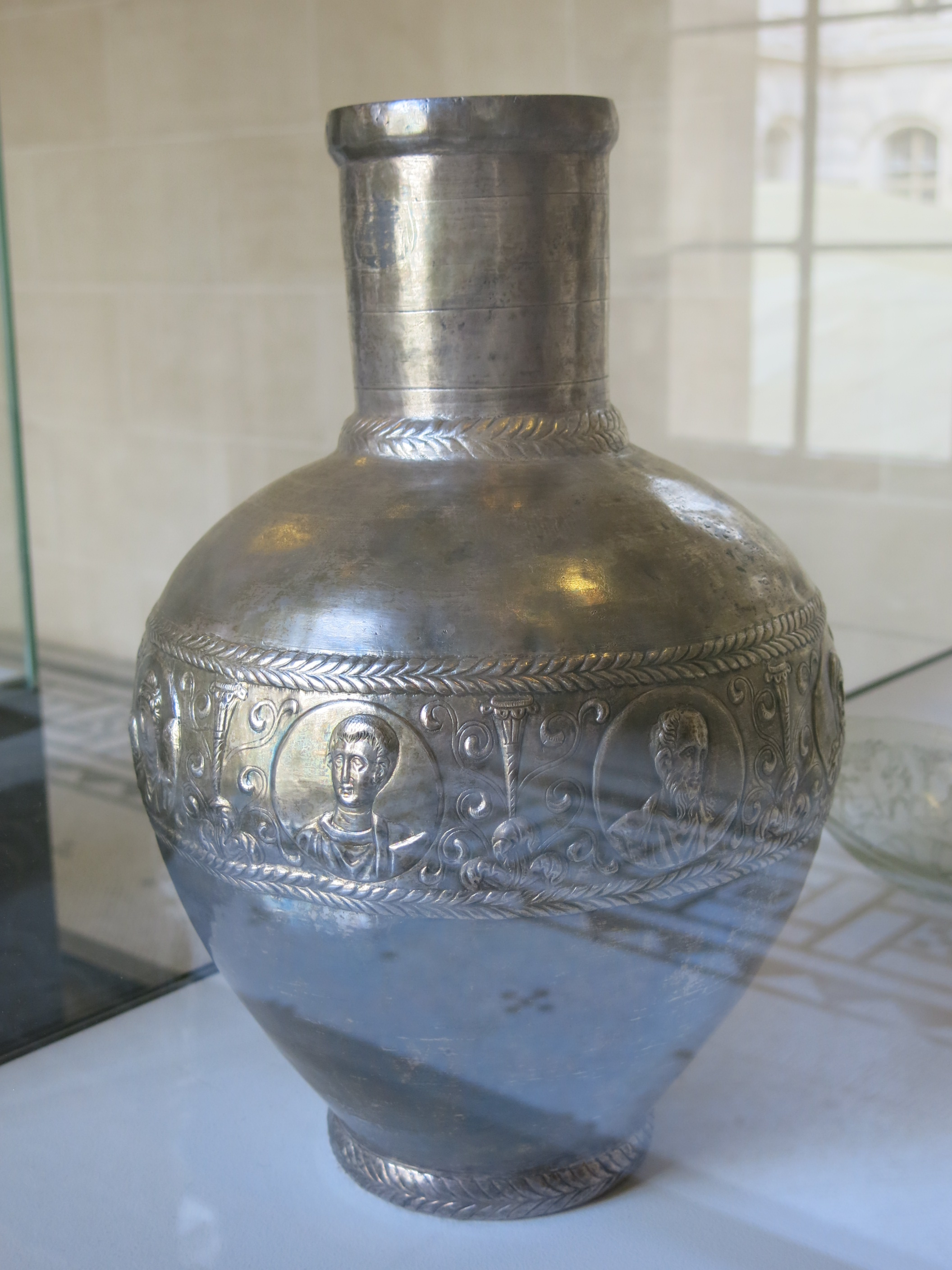 Emese vase (now Homs in Syria). Battered silver with busts of biblical people. Circa 600 AC. Louvre museum (Paris, France).